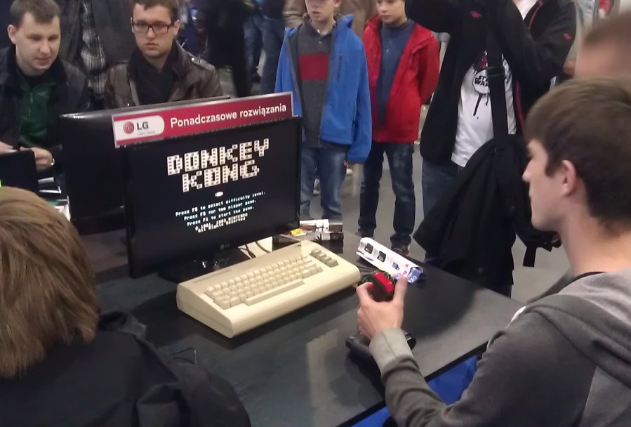 Poznań Game Arena, 2012; game: Donkey Kong